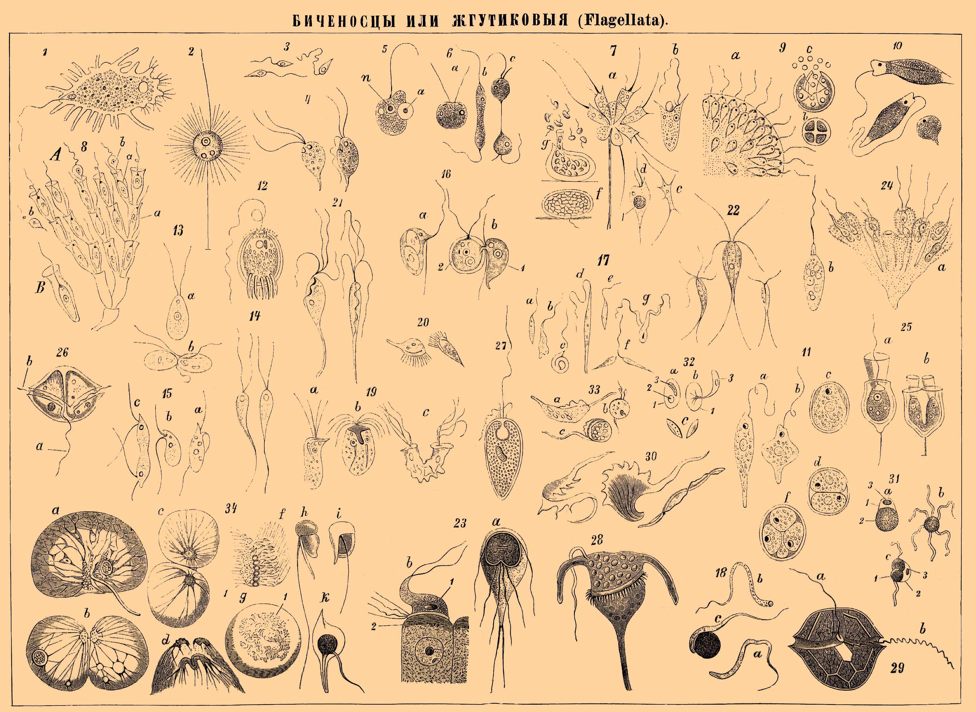 Illustration from Brockhaus and Efron Encyclopedic Dictionary (1890—1907)